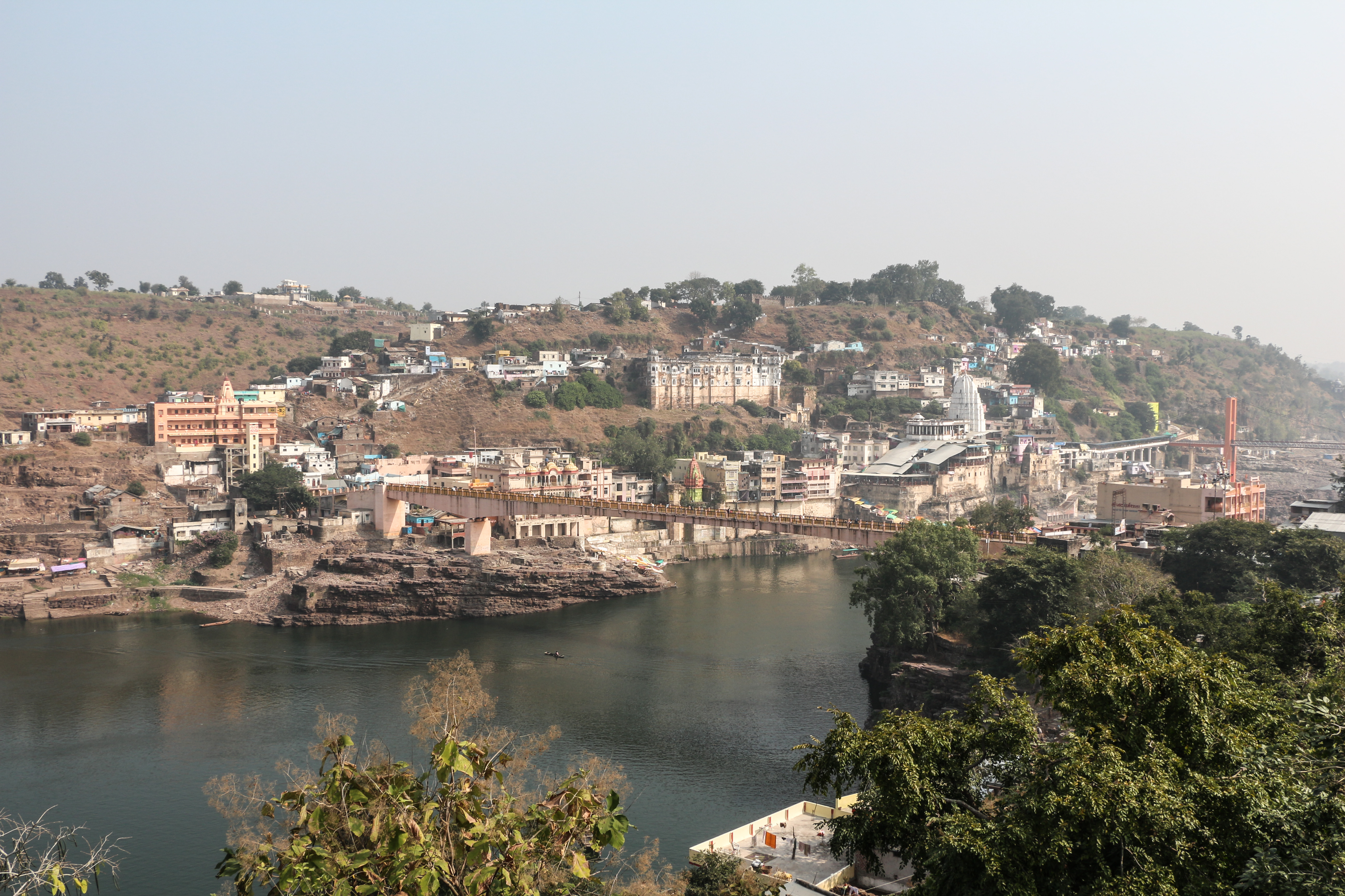 View of Omkareshwar on the Narmada River, India